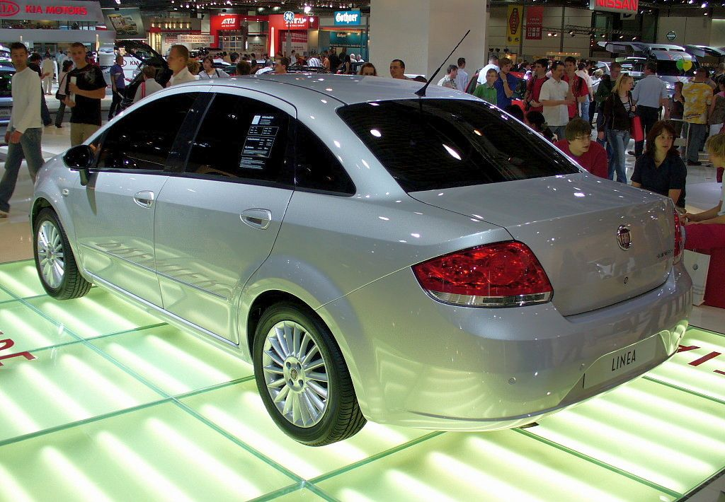 Fiat Linea